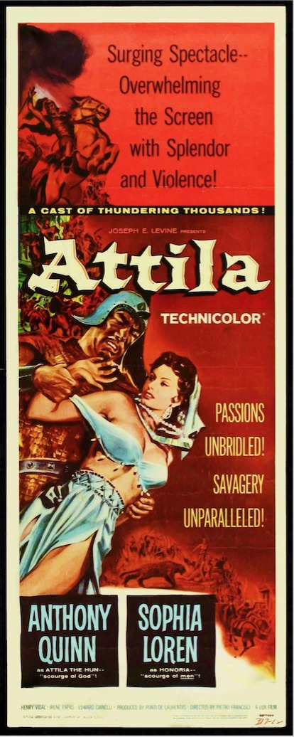 Insert Poster (36 x 12 inches) for ATTILA, US release, 1958.